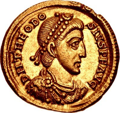 Theodosius I. AD 379-395. AV Solidus (22mm, 4.47 g, 12h). Lugdunum (Lyon) mint. Struck June AD 389-390. D N THEODO SIVS P F AVG, pearl-diademed, draped, and cuirassed bust right / VICTOR IA AVGG, Valentinian II and Theodosius enthroned facing, holding a globe between them; above throne, Victory facing with wings spread; palm frond between; L-D//COM. RIC IX 38b; Lyon 204; Depeyrot 17/2; Biaggi –. EF, light toning in devices.